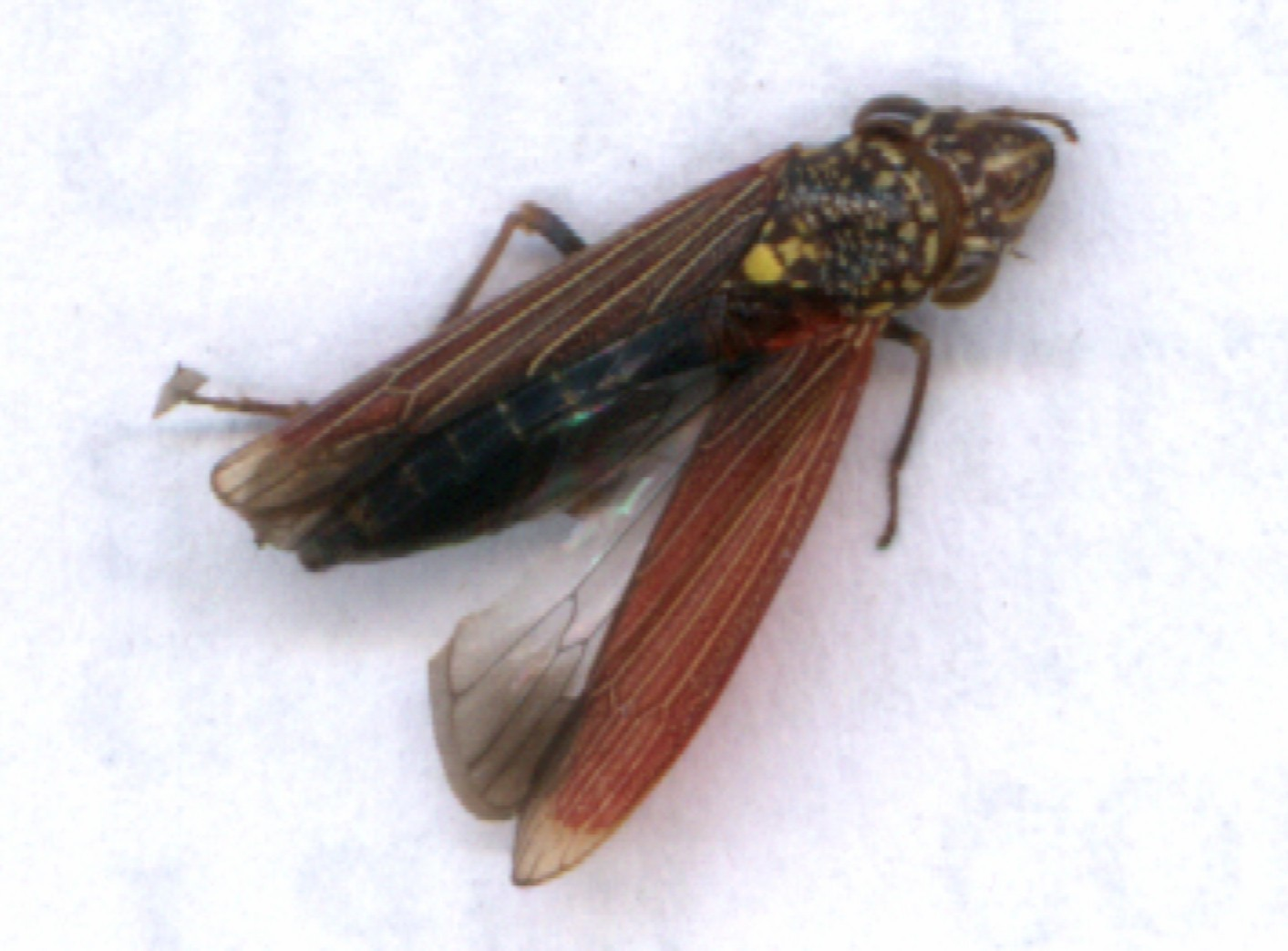 Auchenorryncha (pt: cigarrinha). Brazil.